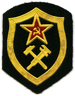 Emblem of the soviet armed forces 1960 to 1970, Soviet Army (military branches, service branches or armed services), sleeve badge (appliquéd) right hand upper arm (dress uniform/ parade uniform) to be used for the ranks OR1 to 8, and WO1 to 2, here: – “Chemical Corps”, design until 1973.